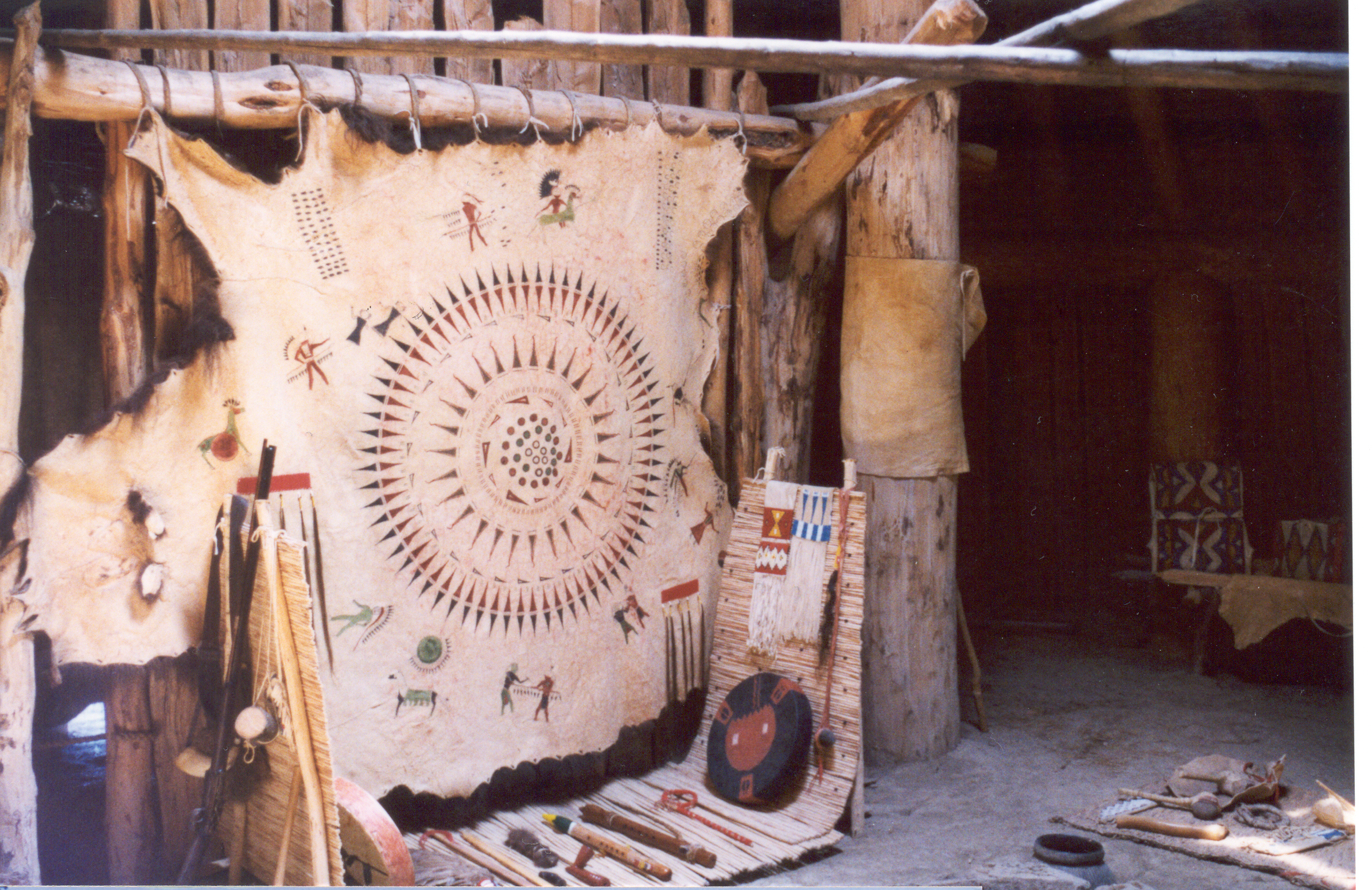 Interior of an EarthLodge, Knife River NHS